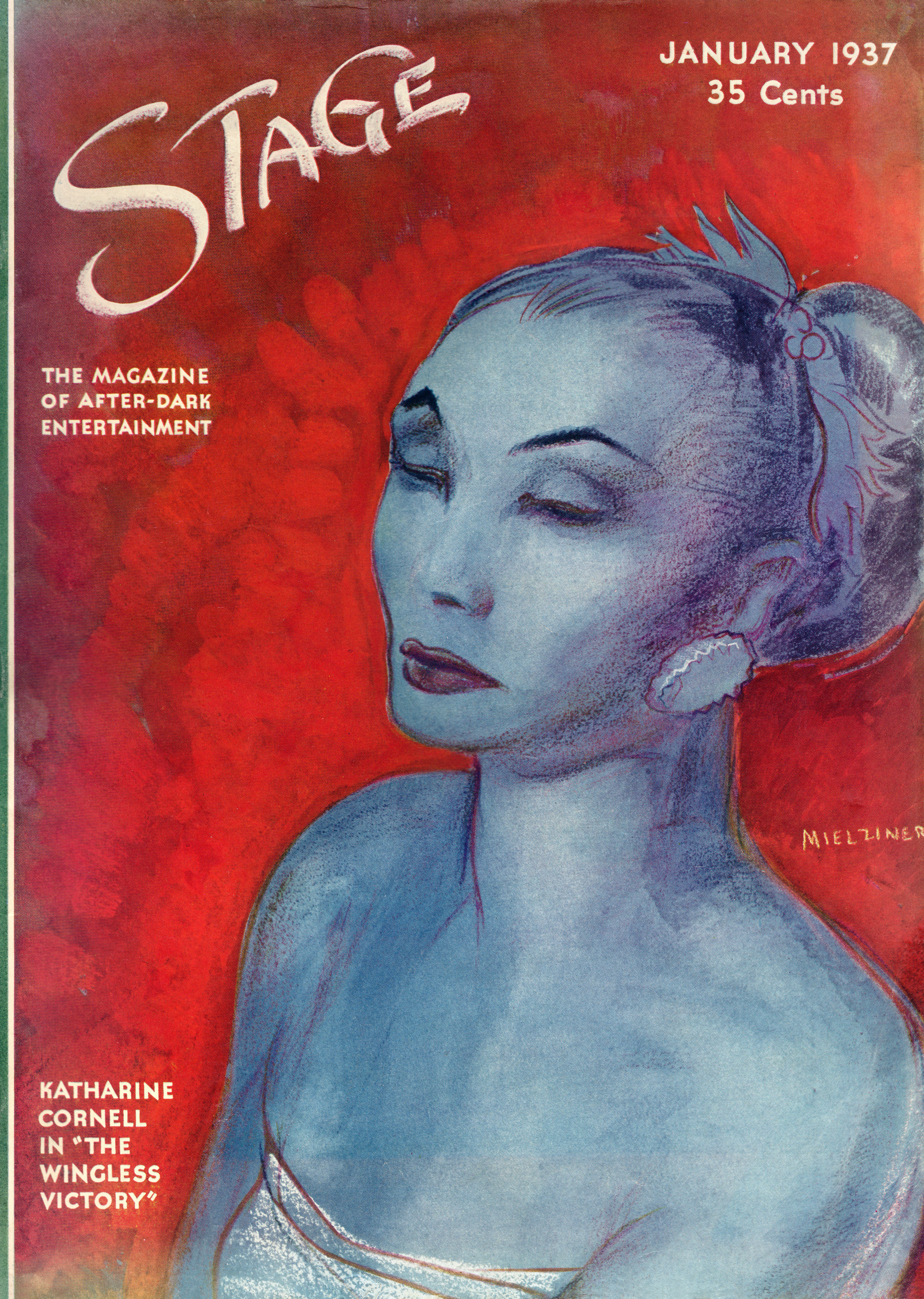 Front cover of Stage featuring a portrait of Katharine Cornell in The Wingless Victory by Maxwell Anderson